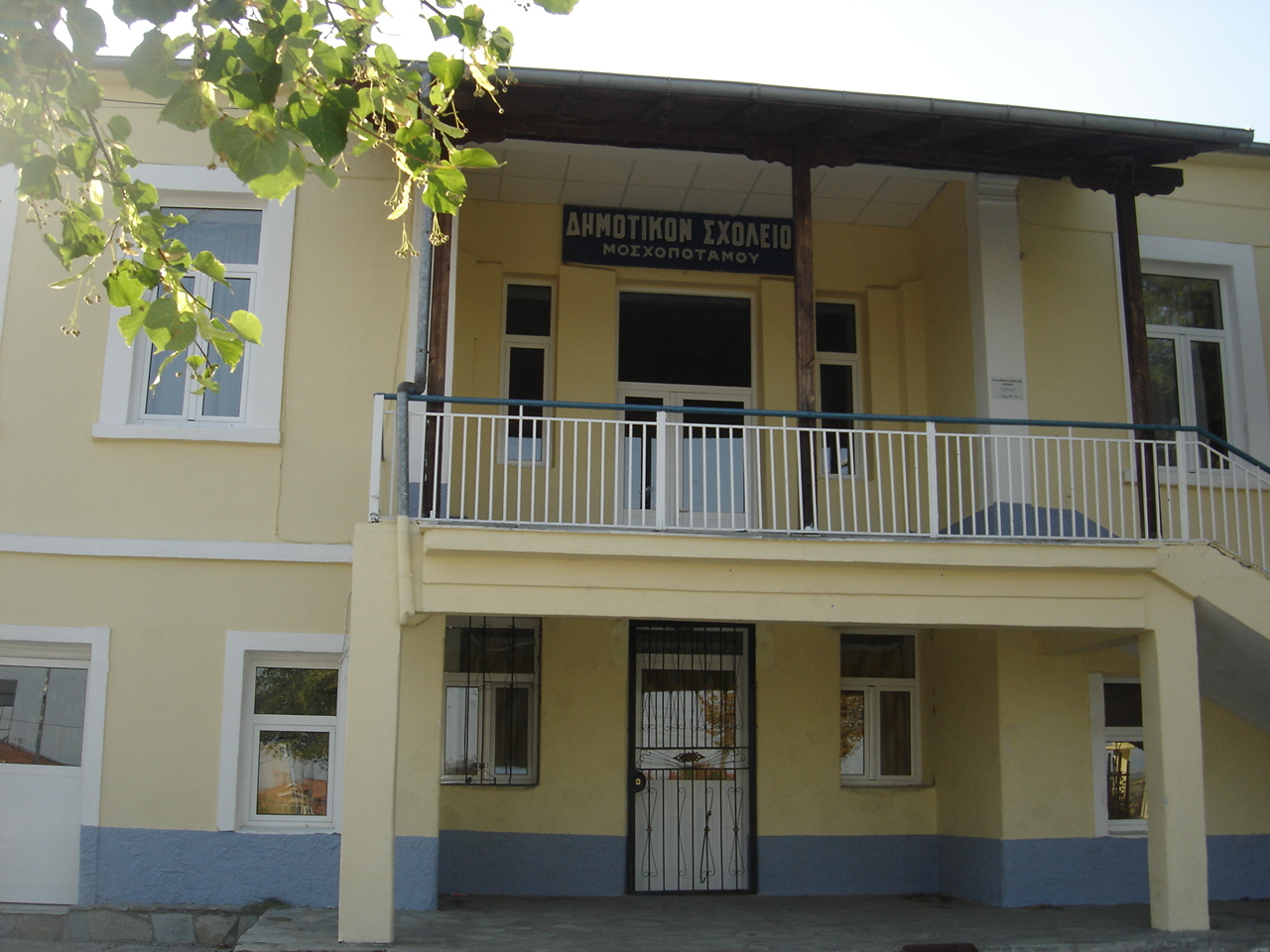 The primary school in Moschopotamos.